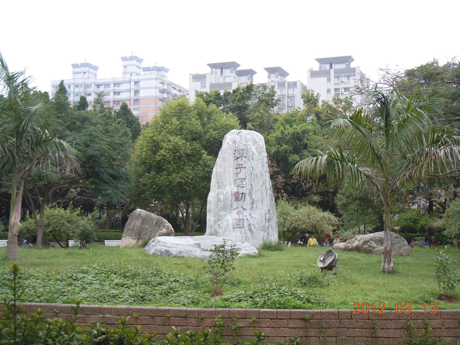 Position in Taizhong deep pool subsegment sugar cane. 中文(繁體):位在臺中市潭子區甘蔗里。